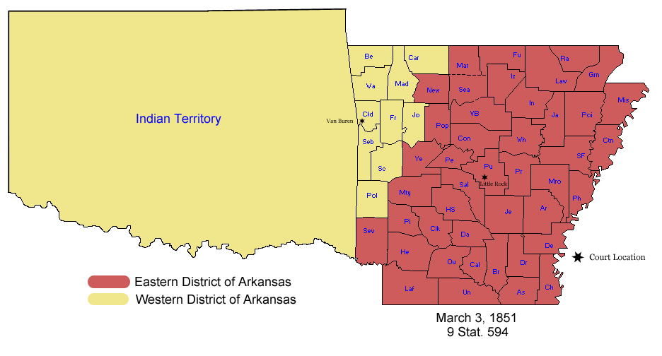 Arkansas districts - 1851